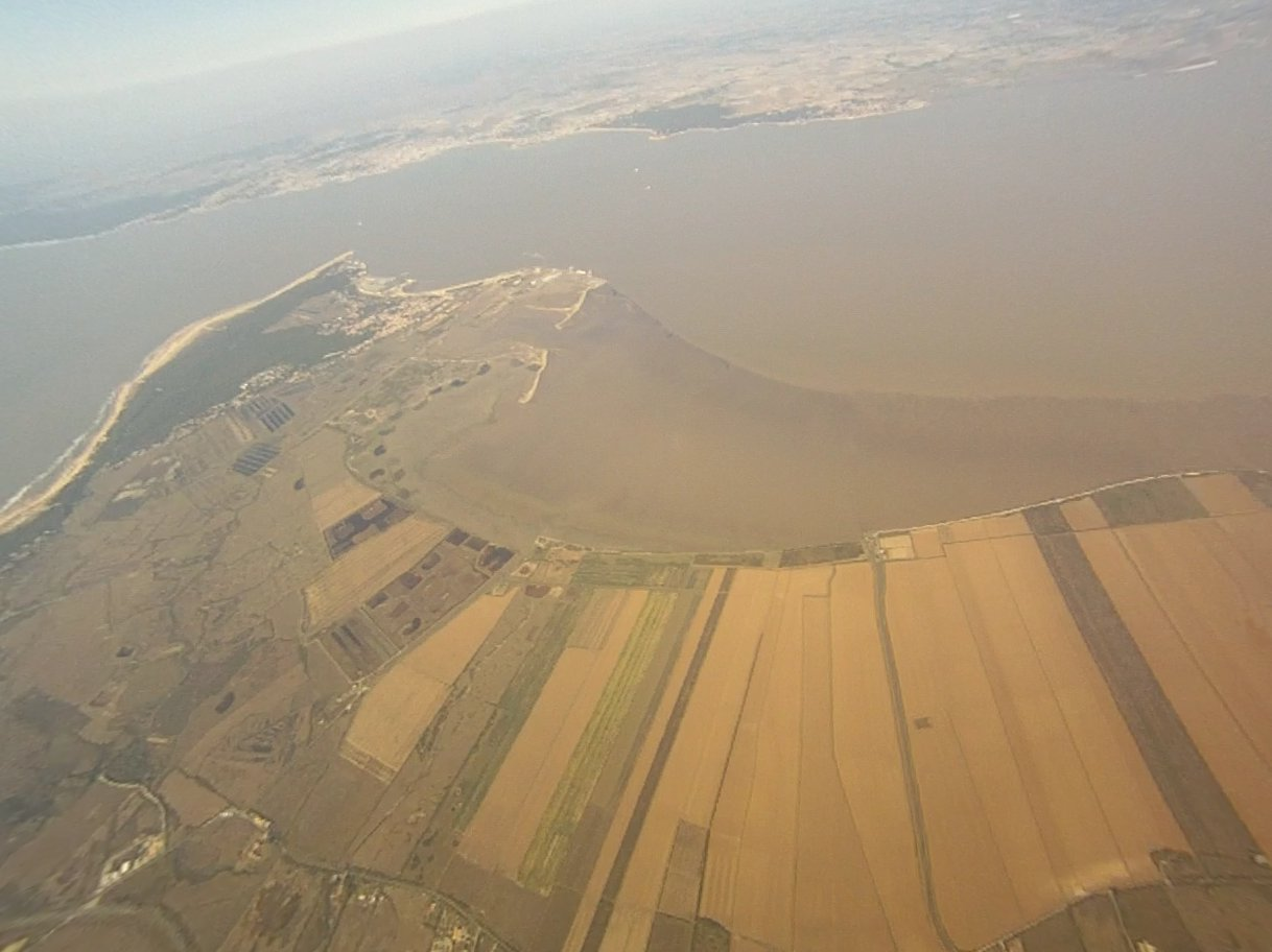 Aerial view of the Gironde estuary. You can see the cape "Pointe de Grave", the polders and above, the bay of Royan. Photo taken an altitude of 4000m during a parachute jump.